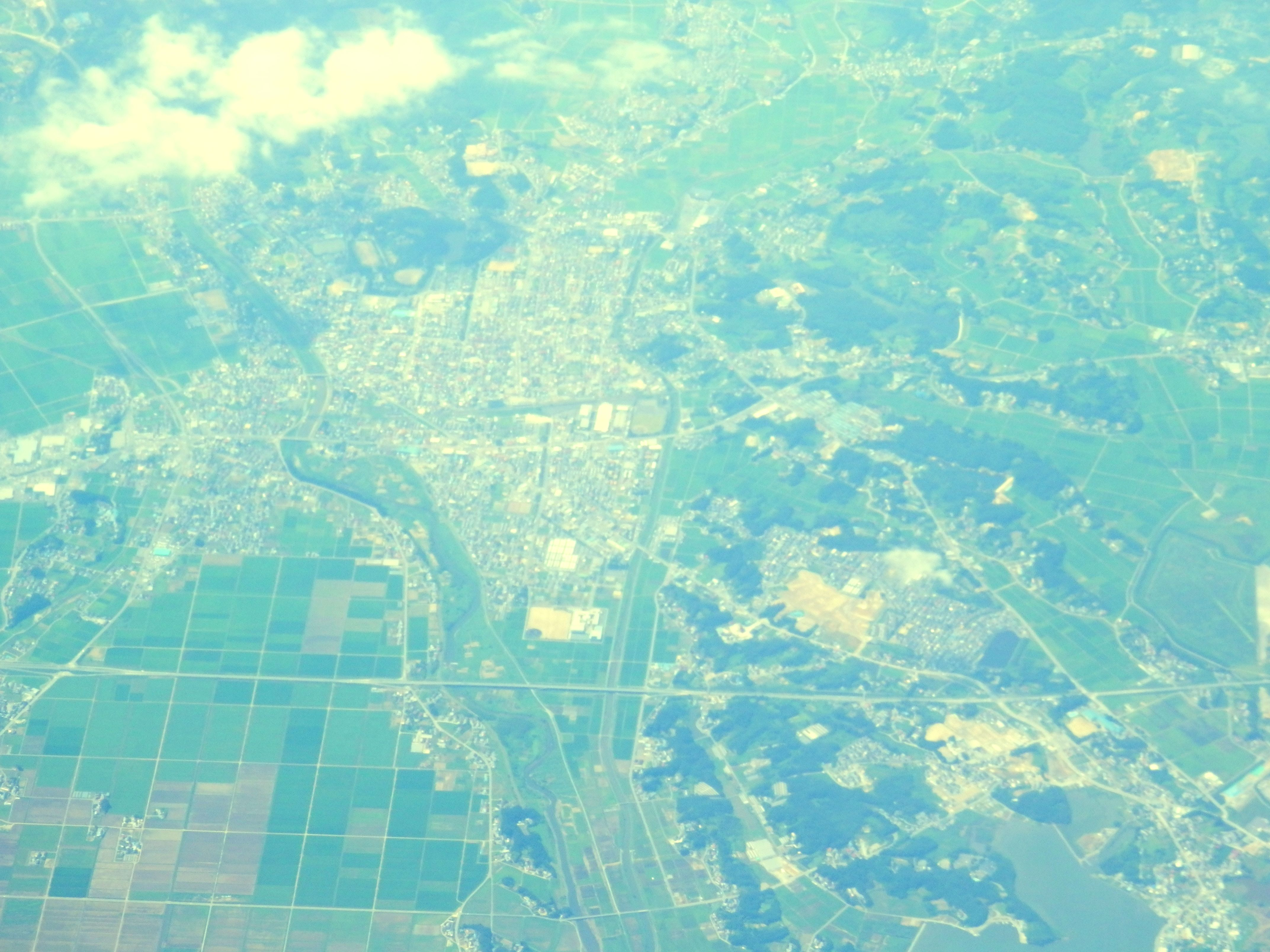 A view of Soma, Fukushima from an aeroplane